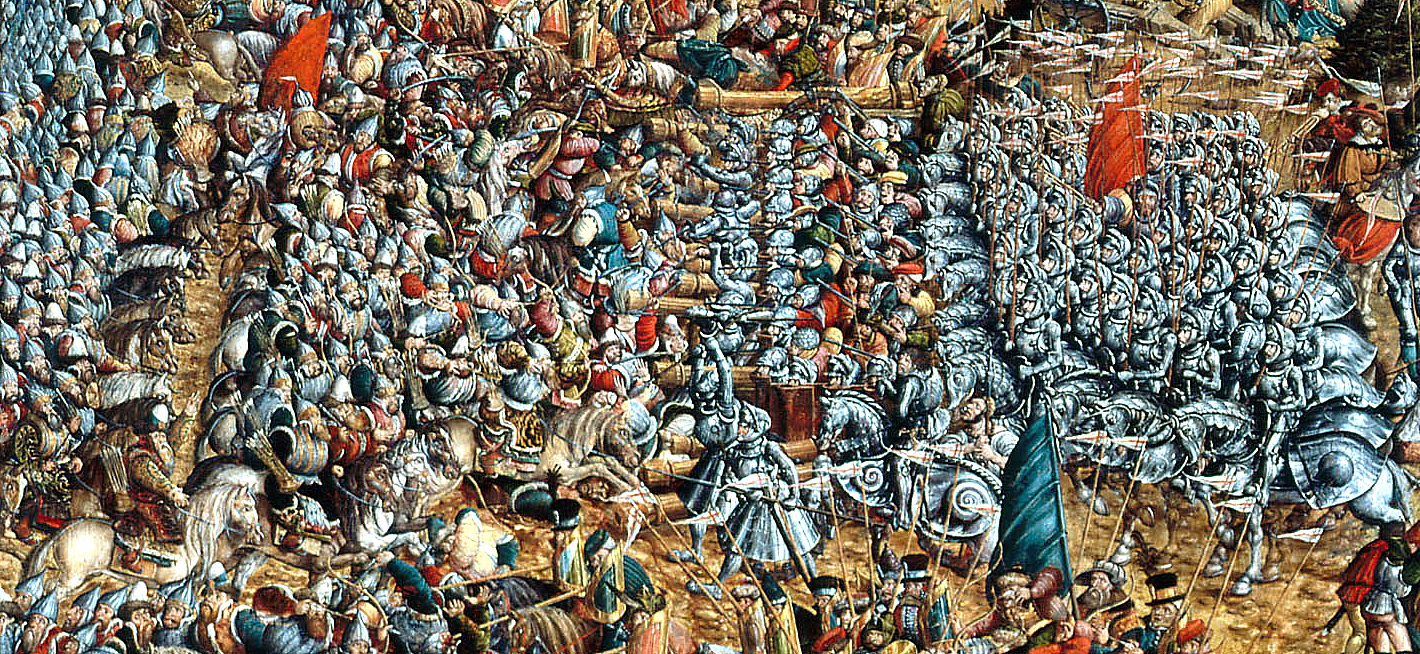 Battle of Orsha